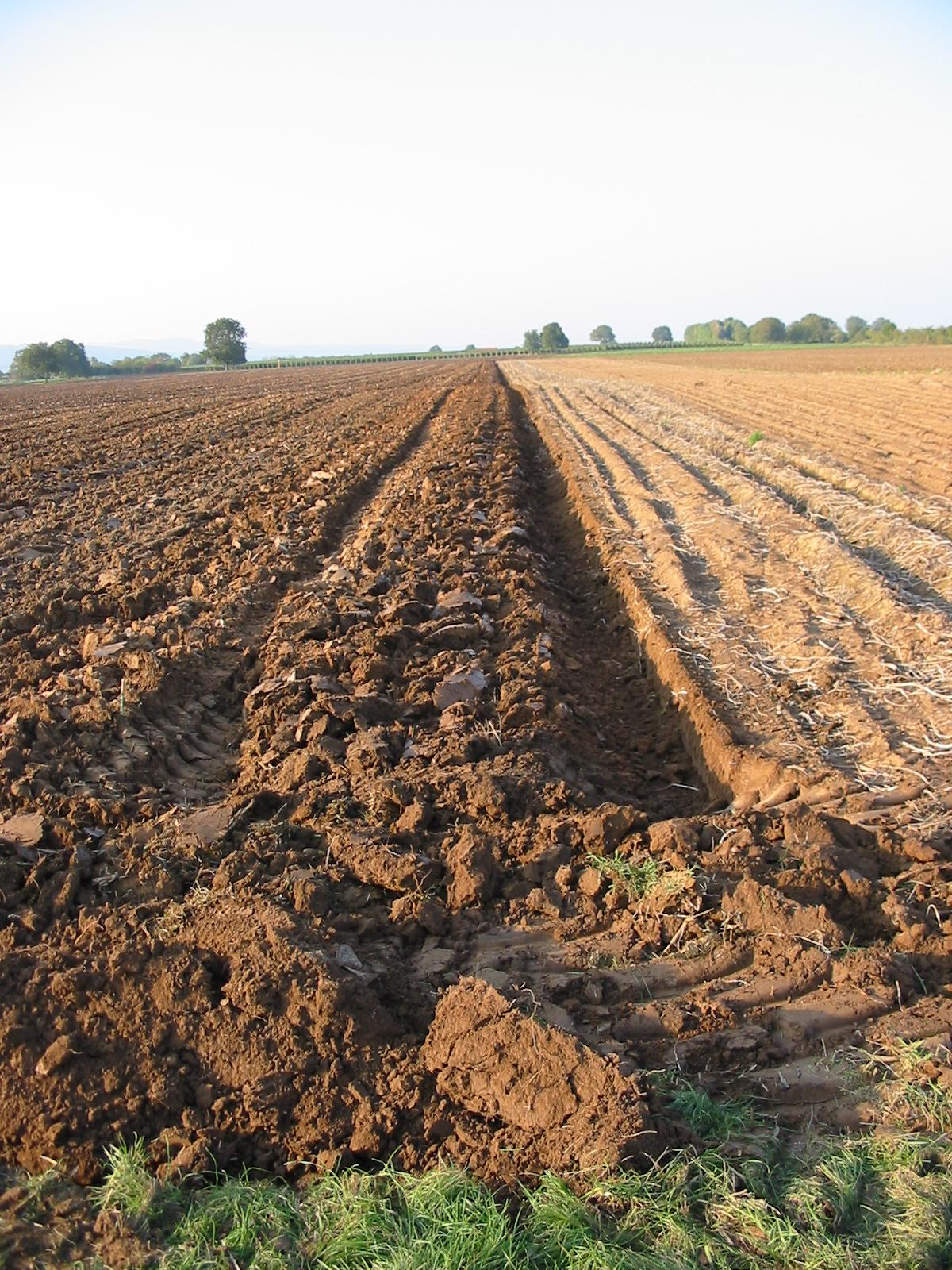 Haßloch (Pfalz), Germany – ploughed field, on the right: harvested potatoe acre